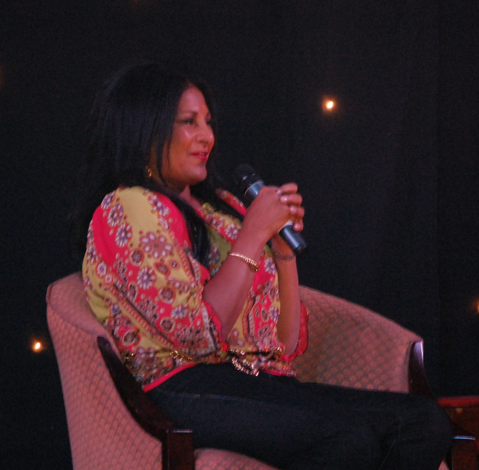 American actress Pam Grier at L6, fan convention for The L Word television program, in Norbreck Castle Hotel, Blackpool, UK.